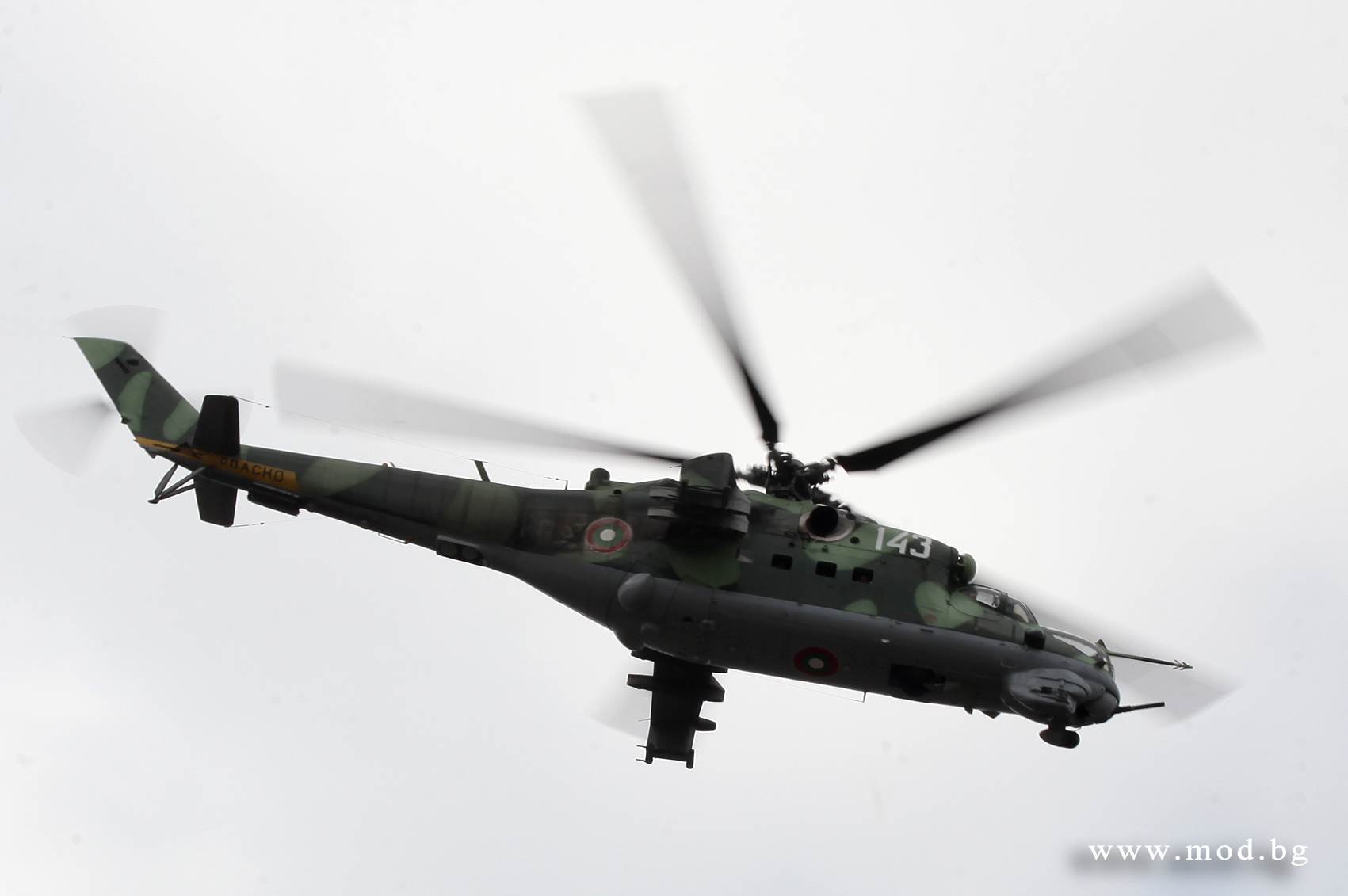 A Bulgarian Mil Mi-24 Hind helicopter gunship at the 2018 Army Day parade